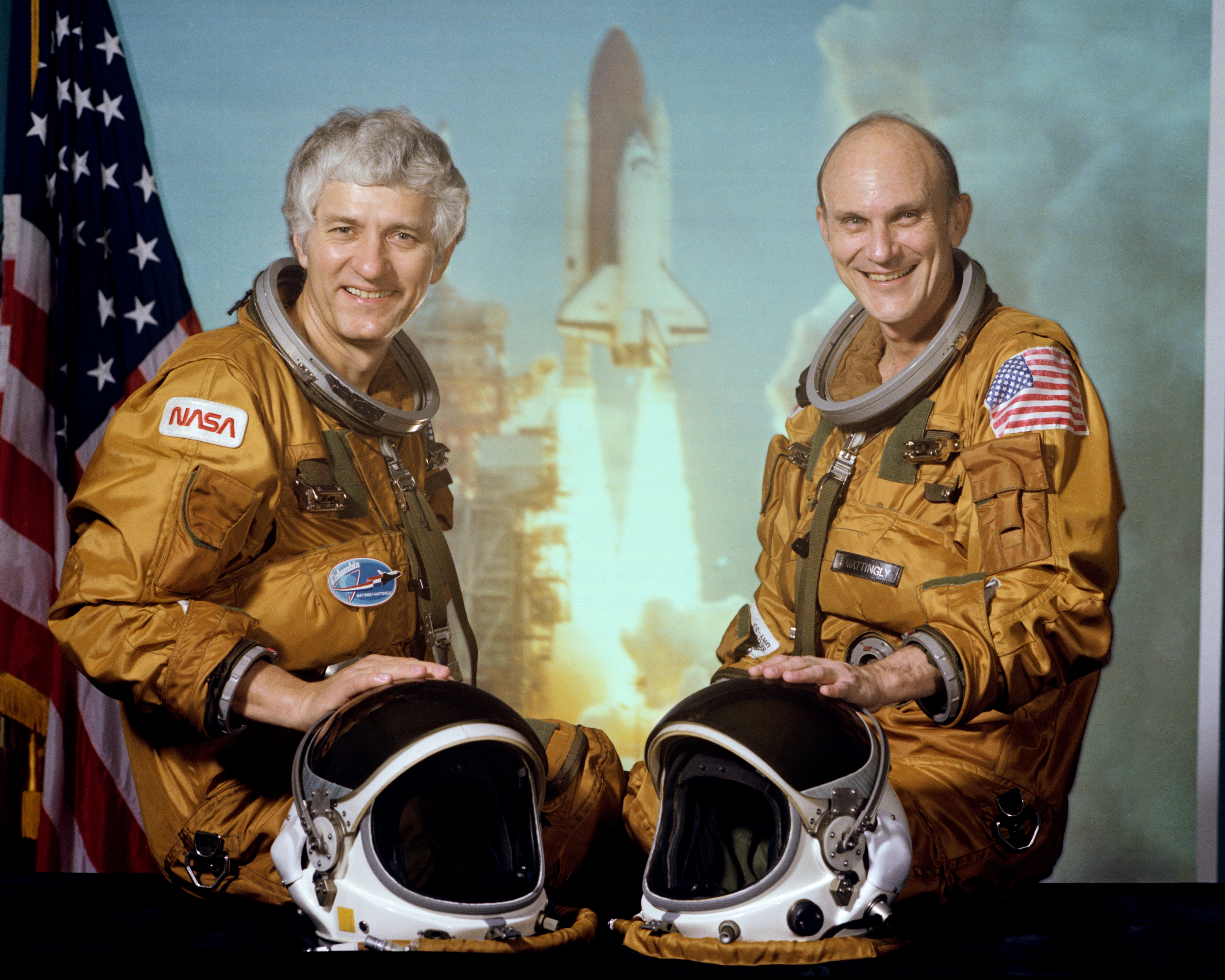 Official portrait of STS-4 crewmembers Henry W. Hartsfield Jr. (pilot), left, and Thomas K. (Ken) Mattingly II (commander) posing in ejection escape suits (EES) with an image of the third space shuttle launch in the background.